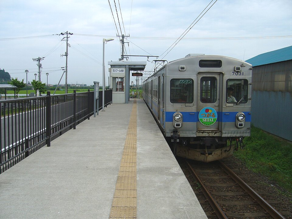 Ishikawa-Poolmae Station, on the Konan Railway Owani Line, Hirosaki, Aomori 石川プール前駅